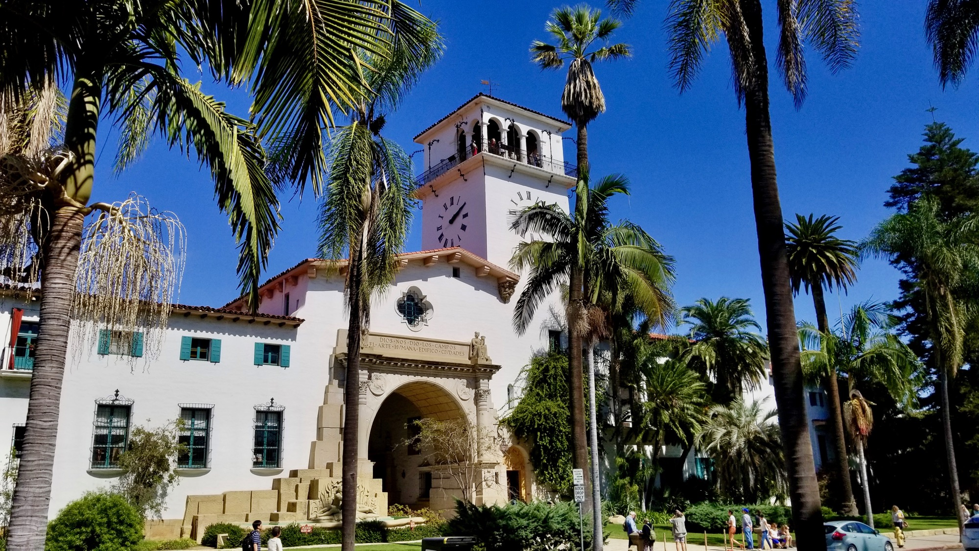 Santa Barbara County Courthouse, photo by John Stanton 22 Sep 2017